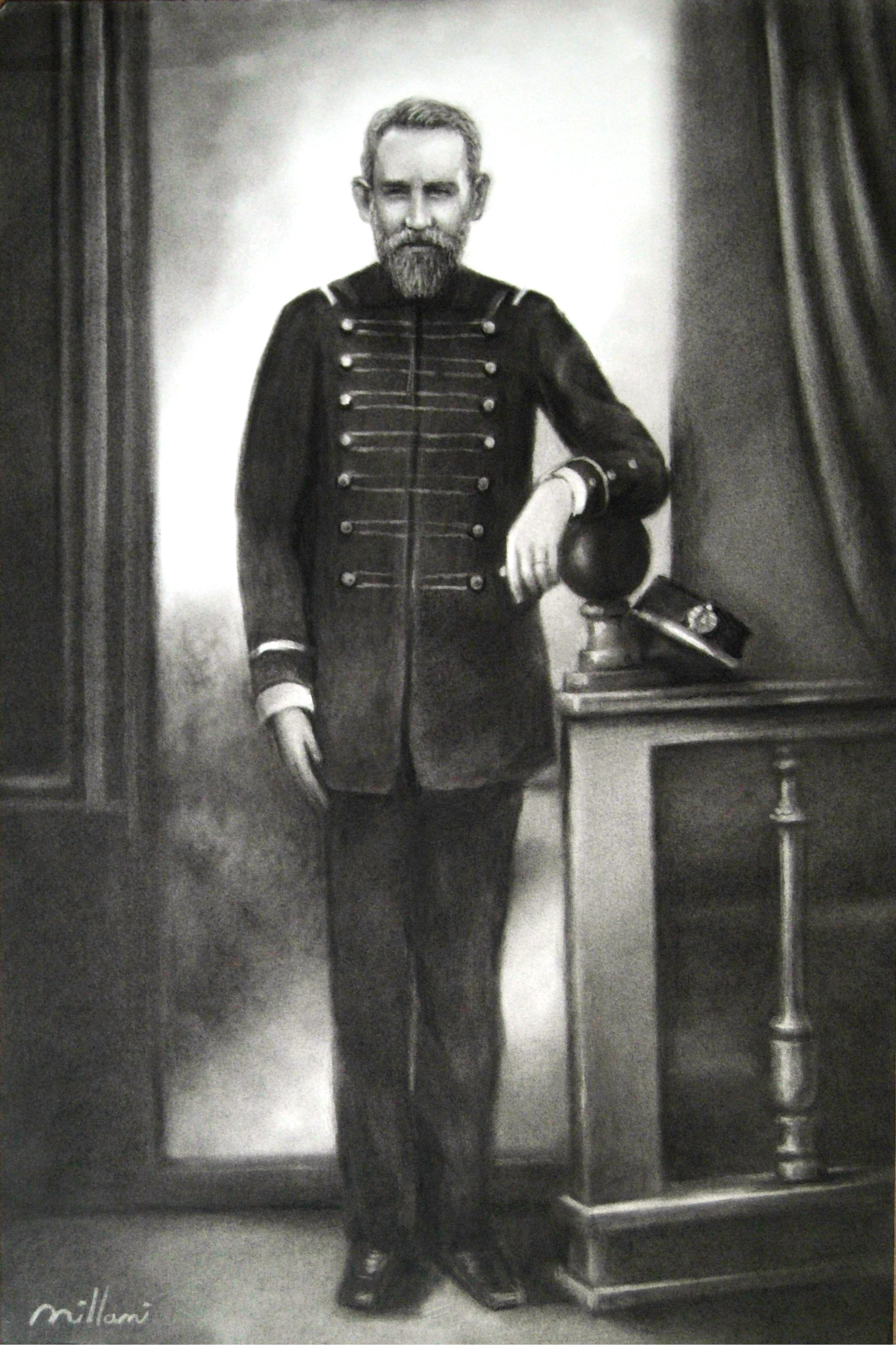 Captain of the Brazilian National Guard Maximiano José de Araujo